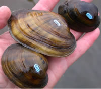 Lampsilis higginsii USFWS photo